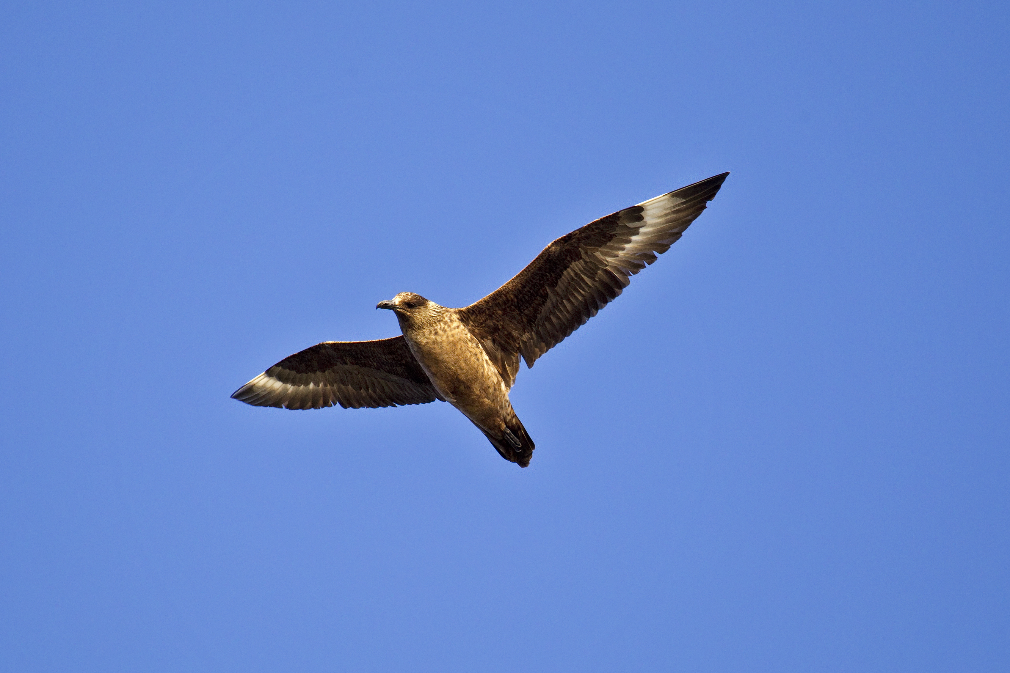 Great Skua